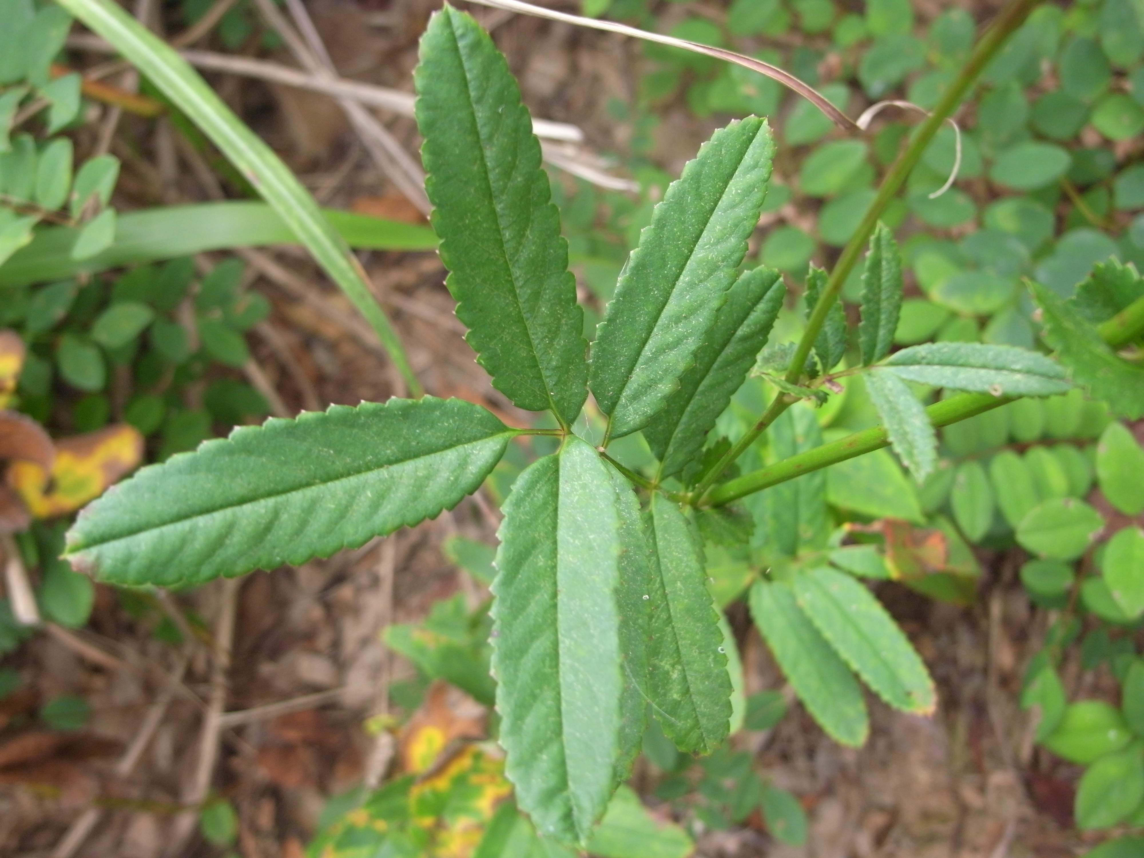 Sanguisorba officinalis in Mudeungsan, Korea